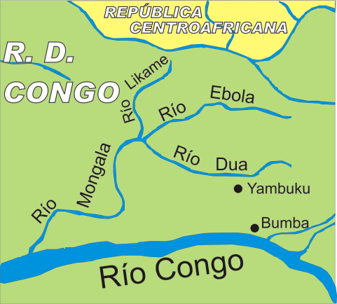 Rivers Ebola and Mongala (map). Río = river.